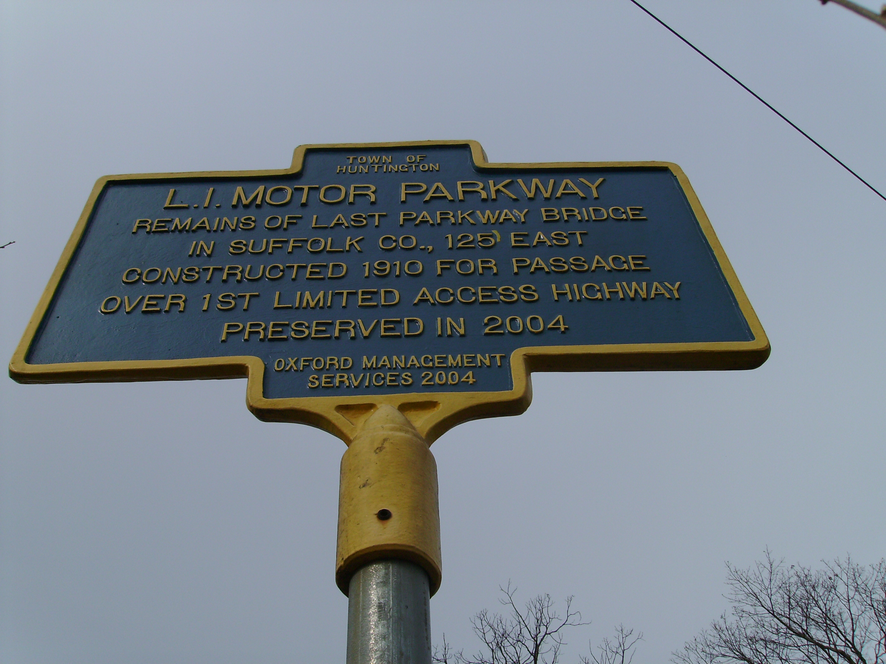 Historical sign of the Long Island Motor Parkway.